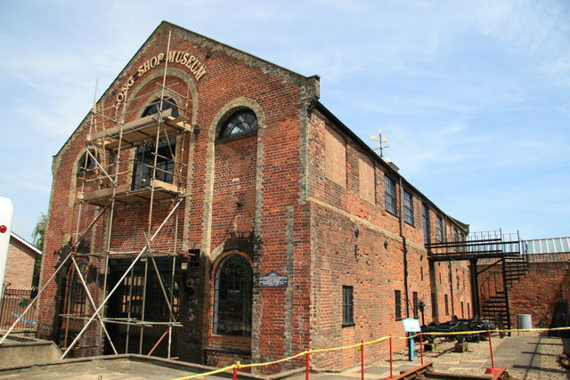 Long Shop Museum, Leiston, former home of Richard Garrett and Sons